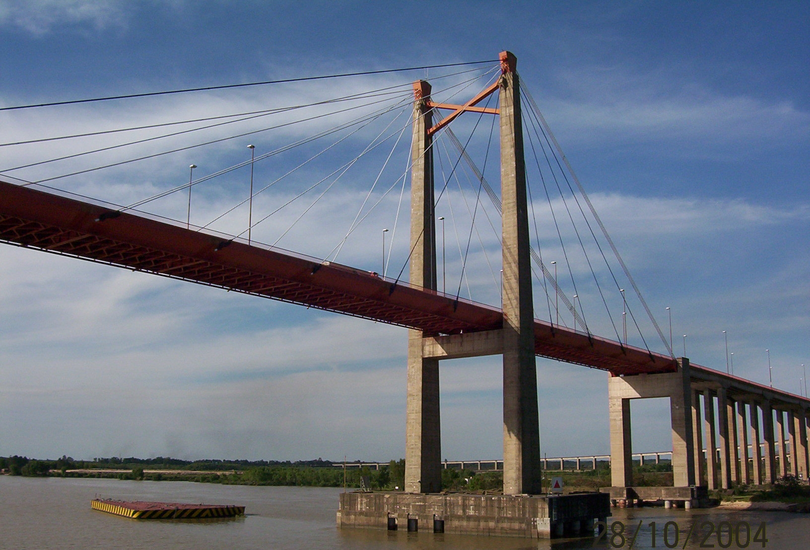 Argentina, Buenos Aires, Puente Zárate Brazo Largo (Justo José de Urquiza bridge)